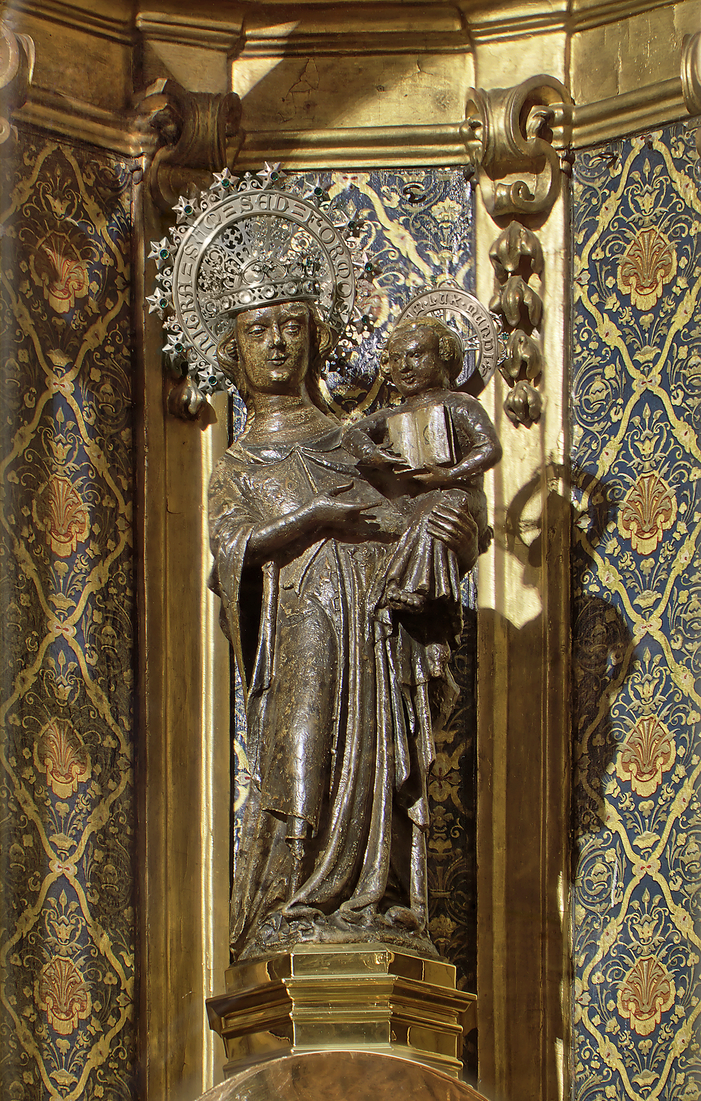 Mare de Déu de Lluc "La Moreneta", Camarin_de_la_Virgen, Santuari de Lluc, Escorca, Majorca.